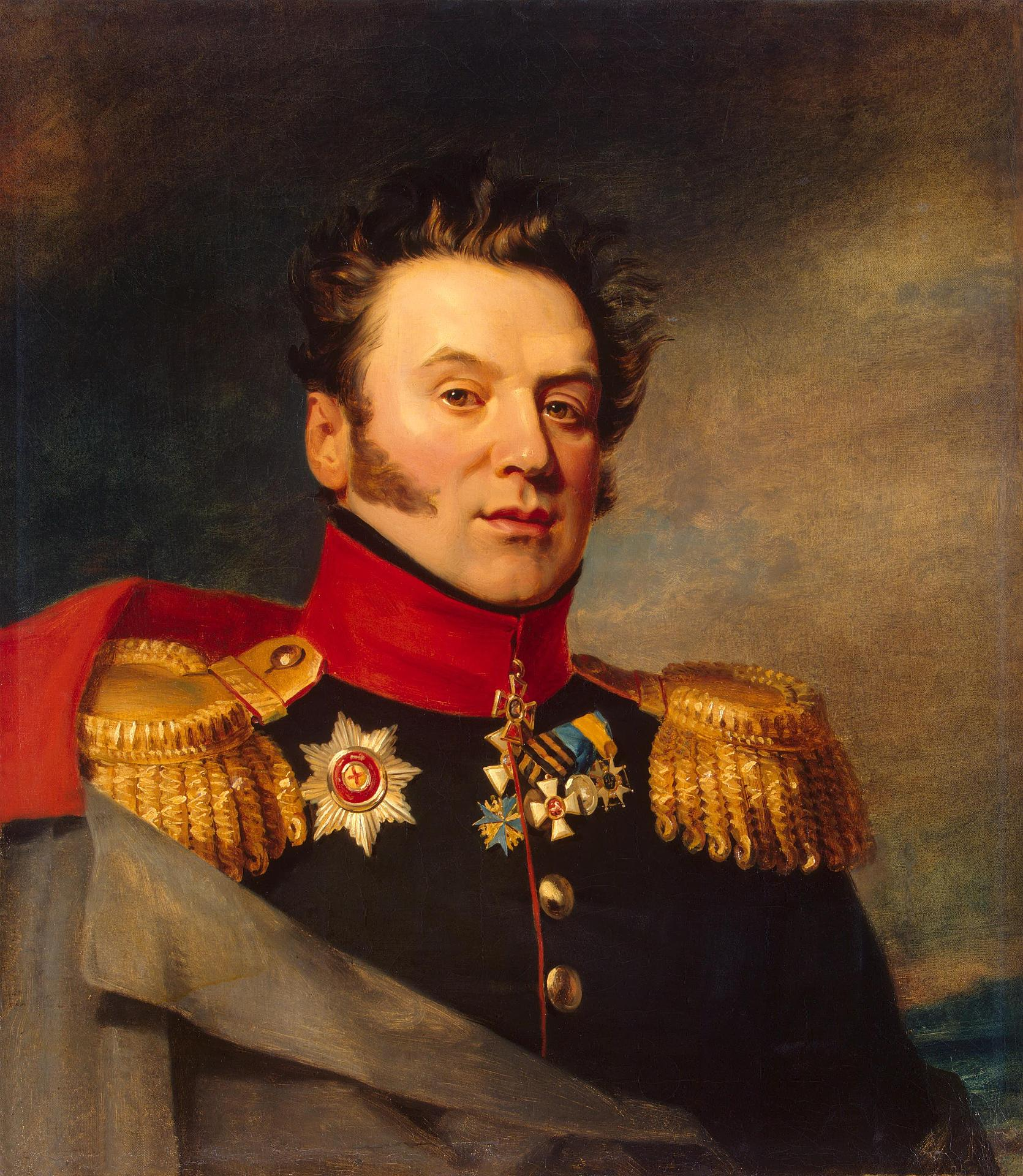 Konstantin Markovich Poltoratsky (30.05.1782 – 15.03.1858) russian general